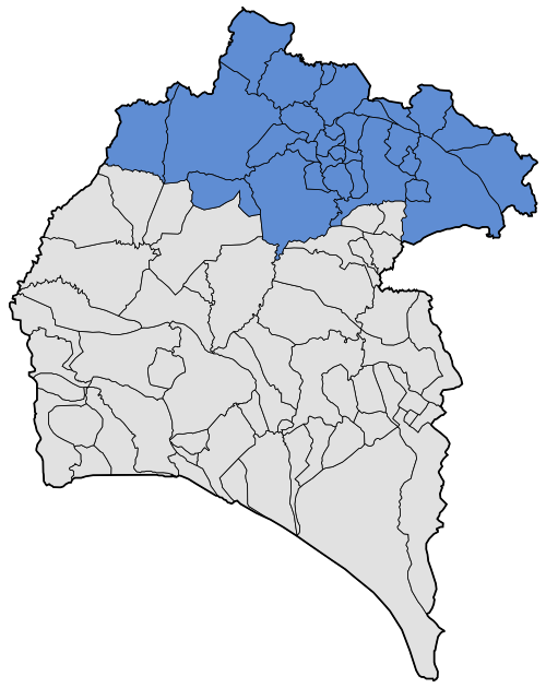 Political Map of Sierra de Huelva, region of Huelva, Spain